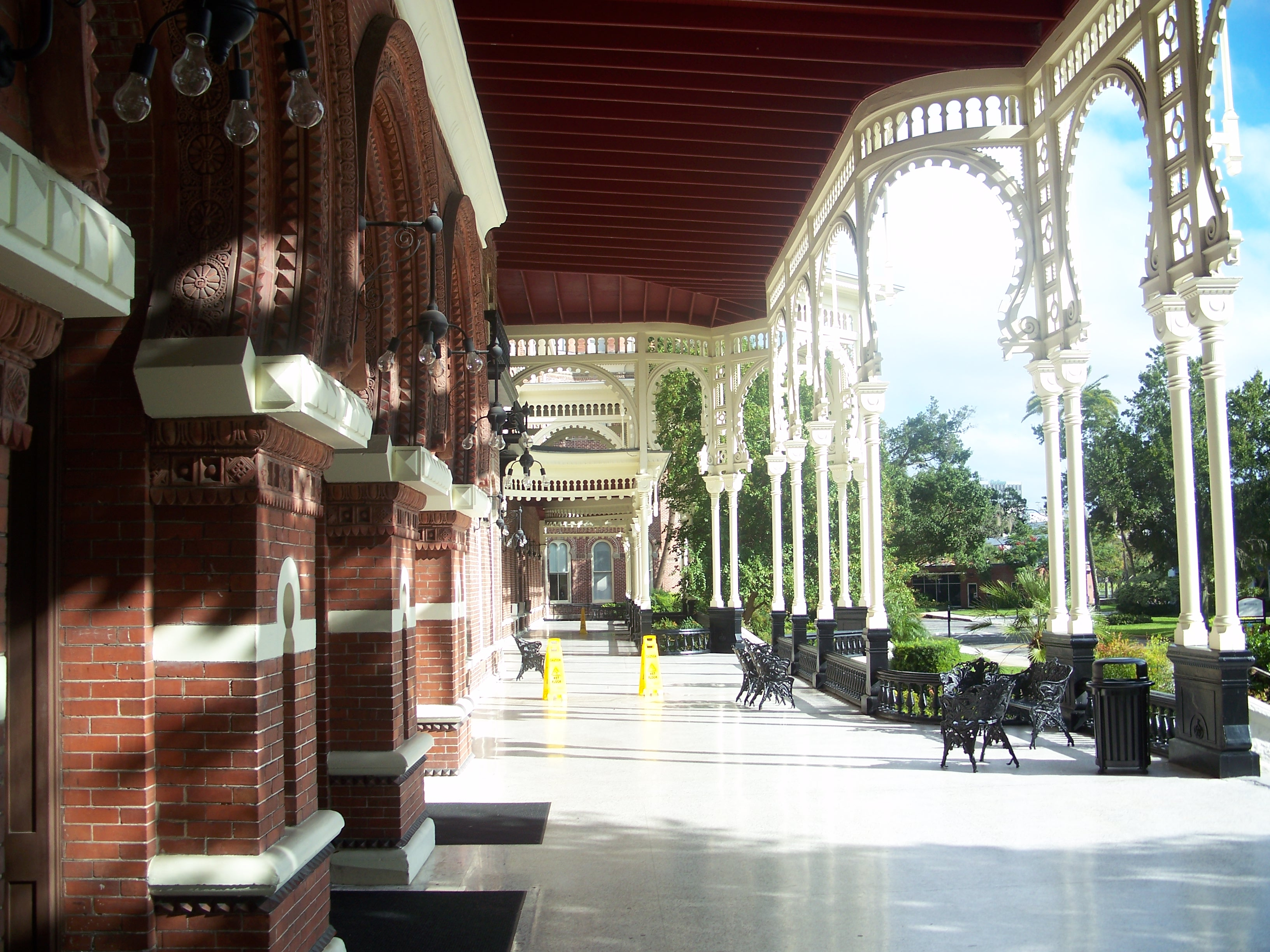 Porch at the Old Tampa Bay Hotel, a National Historic Landmark, now part of the University of Tampa, in Tampa, Florida